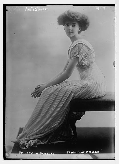 Anita Stewart, princess of Braganza (1885-1977).